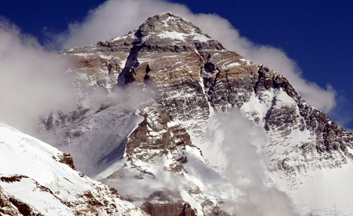 Mount Everest summit climbed by the Everest Peace Project members. (Everest: A Climb for Peace)